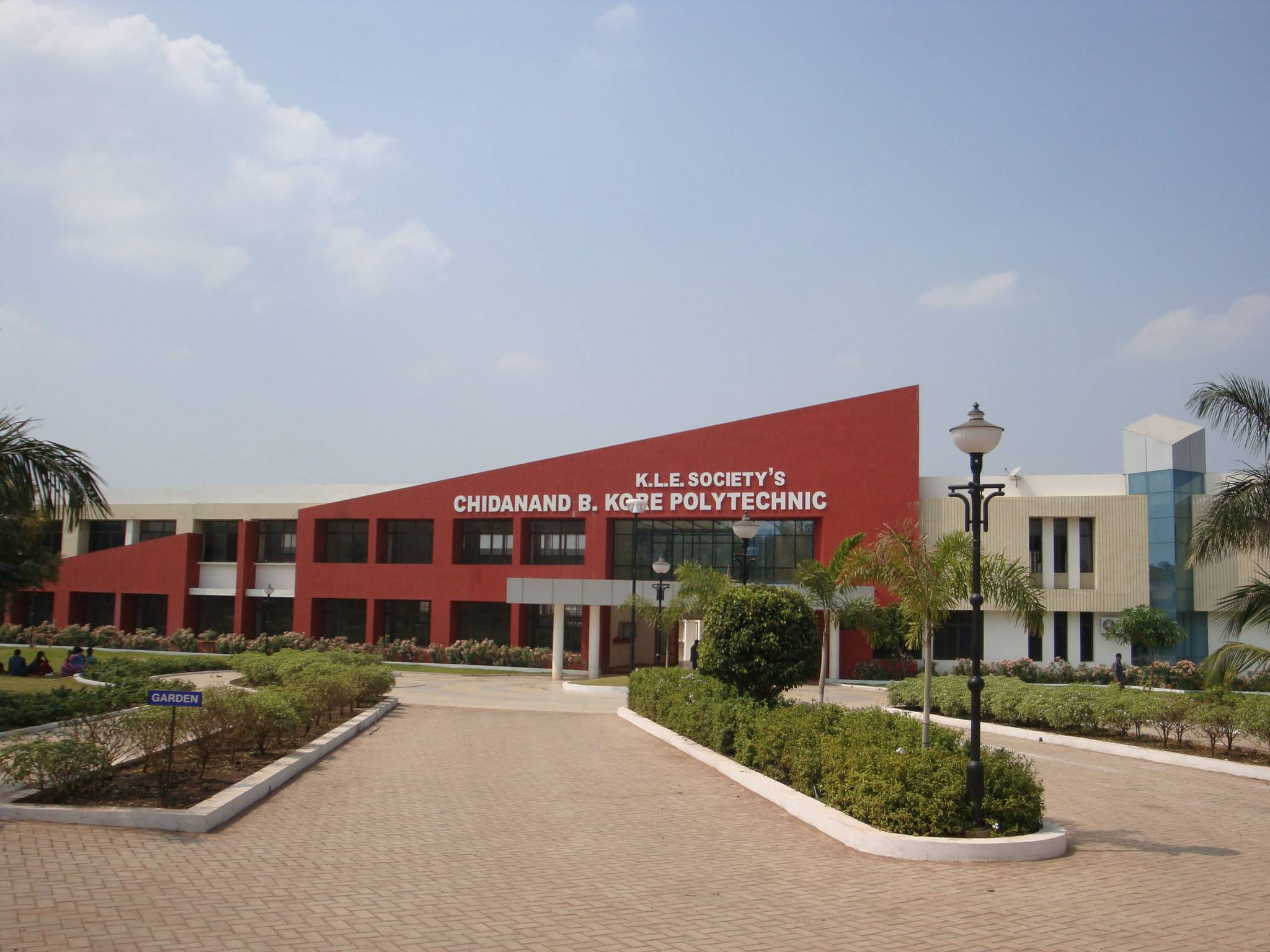 KLE's C.B Kore Polytechnic College, Chikodi